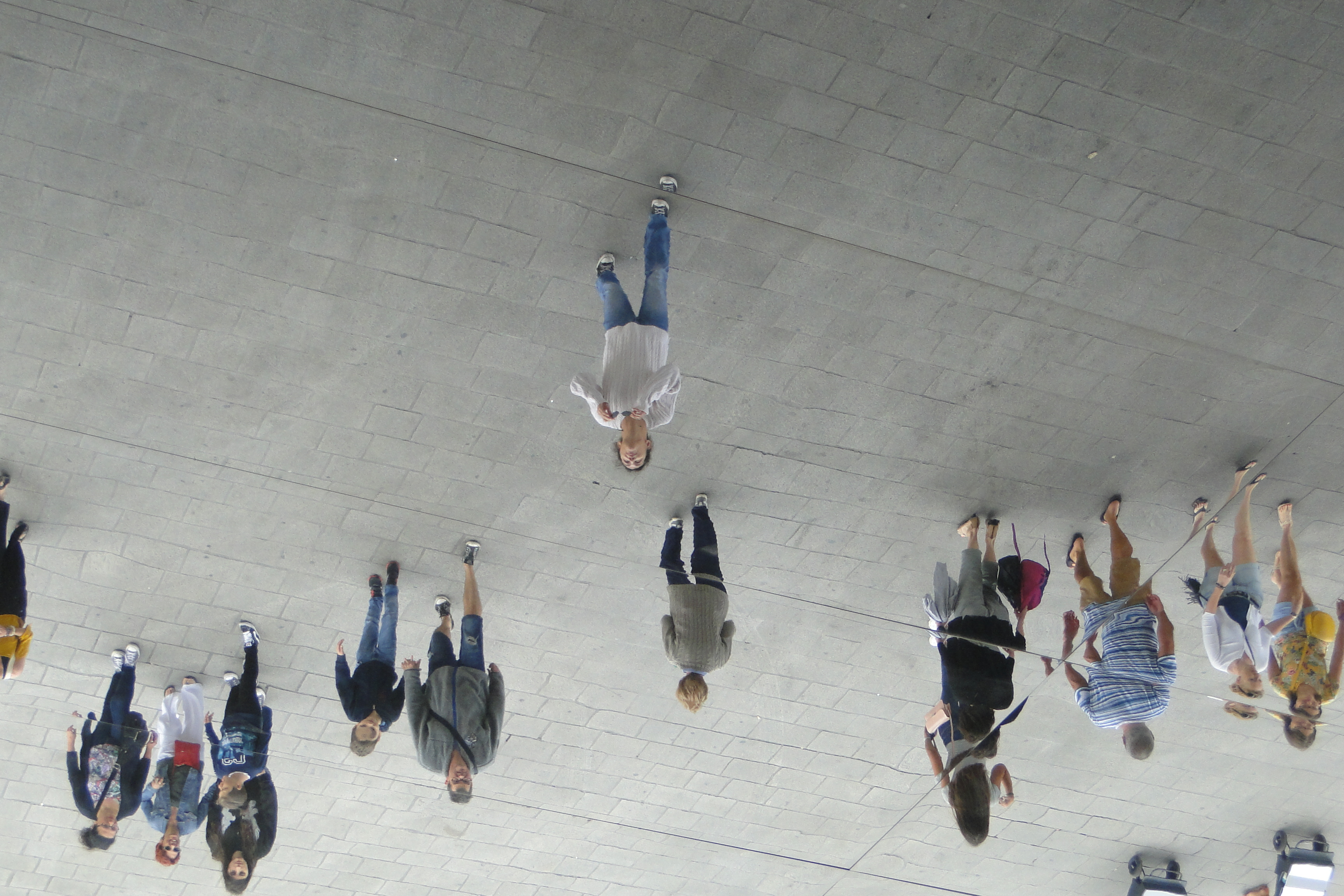 Under the reflecting platform over Quai des Belges in Marseille